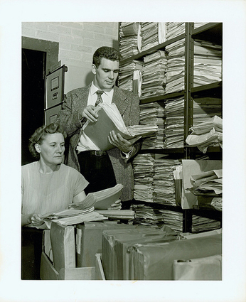 ay Luvaas while at Duke University Library, 1954 (with Mattie Russell, curator of manuscripts)